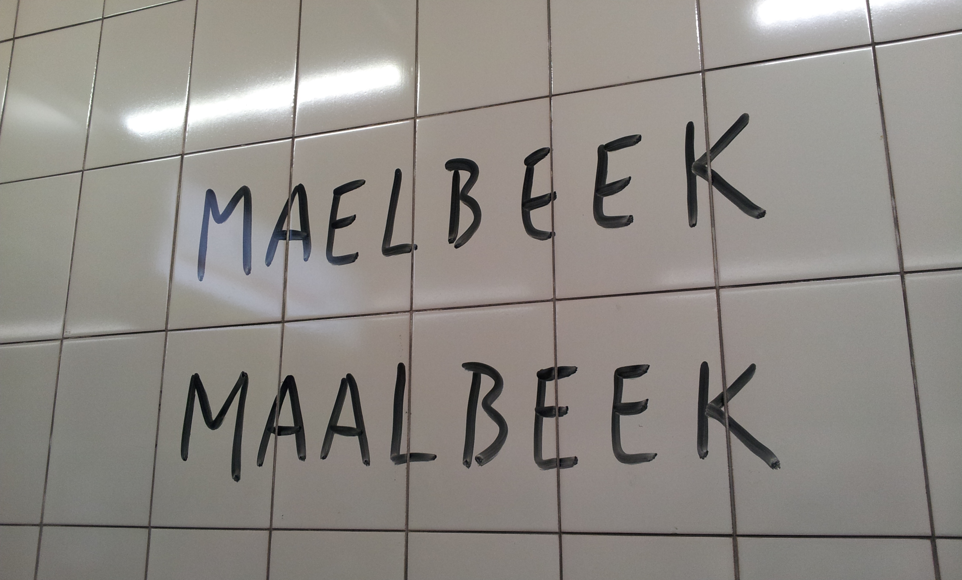 Maelbeek/Maalbeek metro station in Brussels